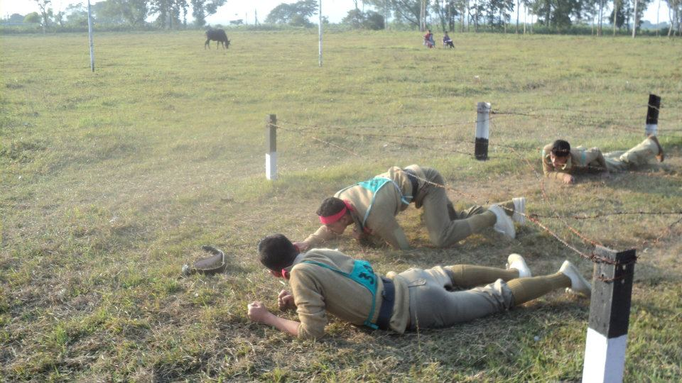 obstacle compition